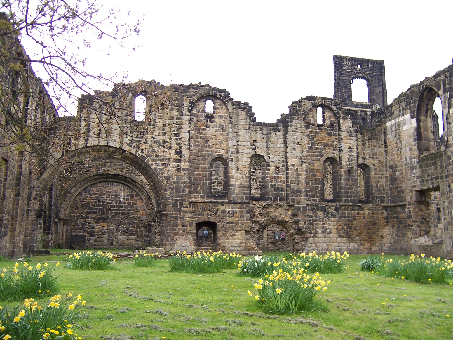 former kitchen of Kirkstall Abbey in Leeds, Yorkshire (England) own work; photo taken on 30 April 2006